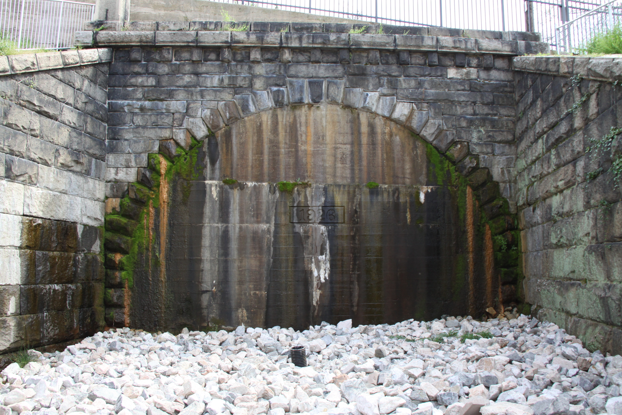 "The Church Hill train tunnel was sealed in 1926 after a collapse." - From original caption at Flickr